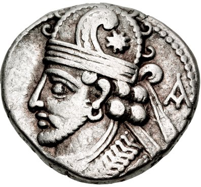 Coin of Pacorus II (cropped), Seleucia mint.